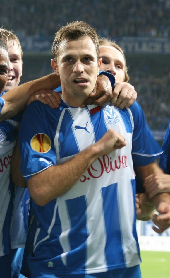 Serbian football player Dimitrije Injac after scoring against Manchester City in Europa League